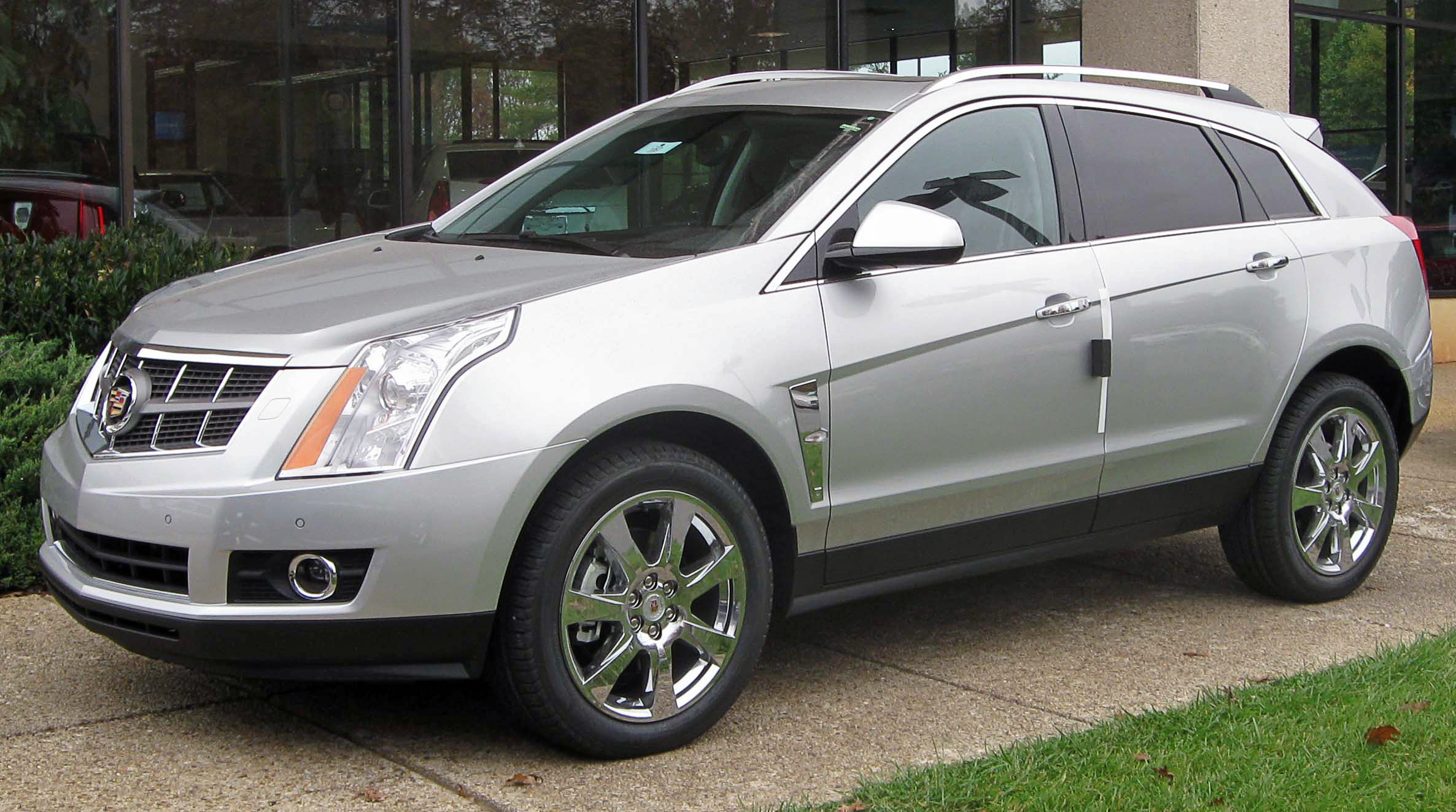 2010 Cadillac SRX photographed in Greenbelt, Maryland, USA.